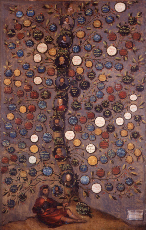 George Jamesone: Campbell of Glenorchy Family Tree